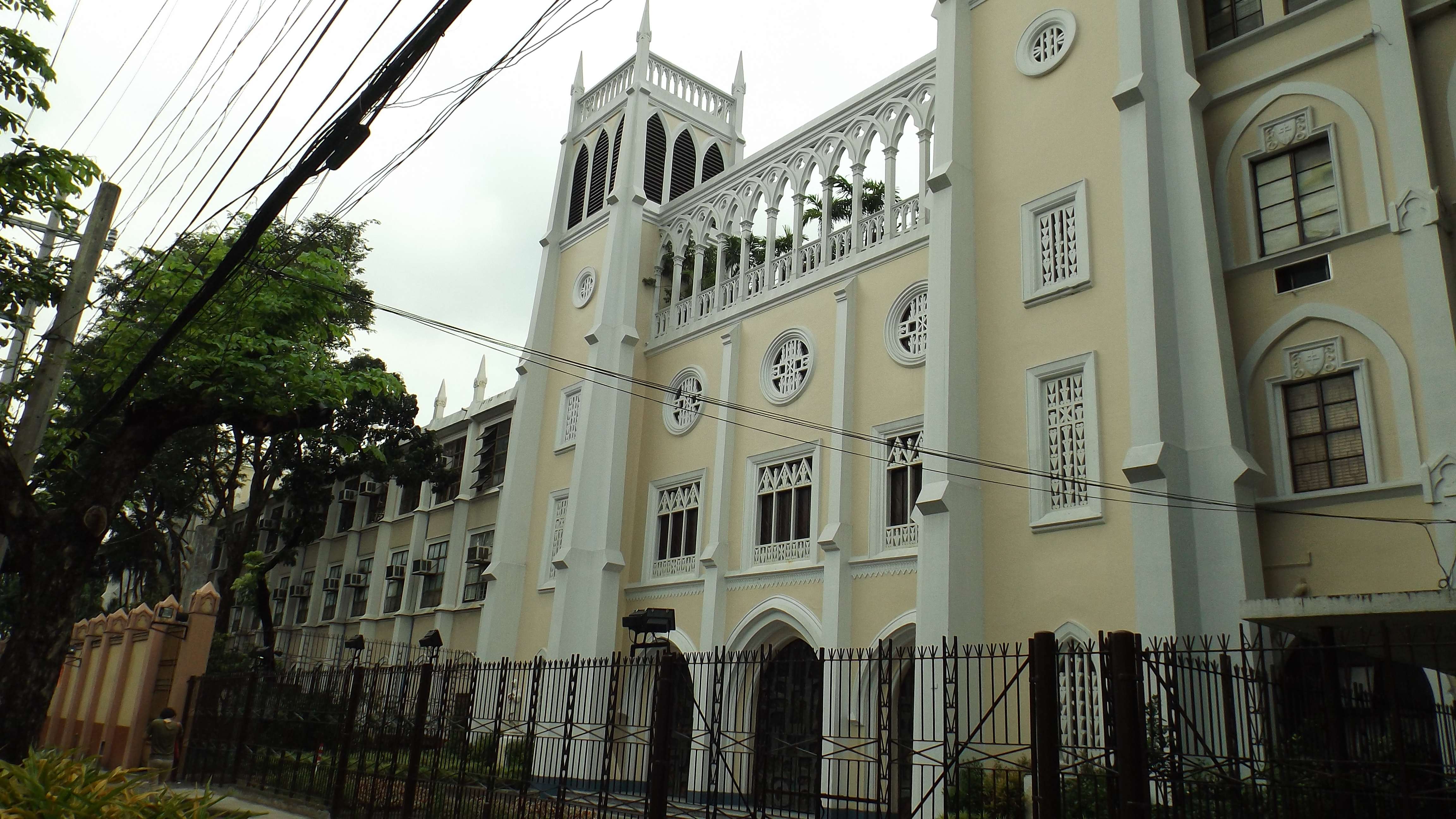 Facade across Mendiola Street